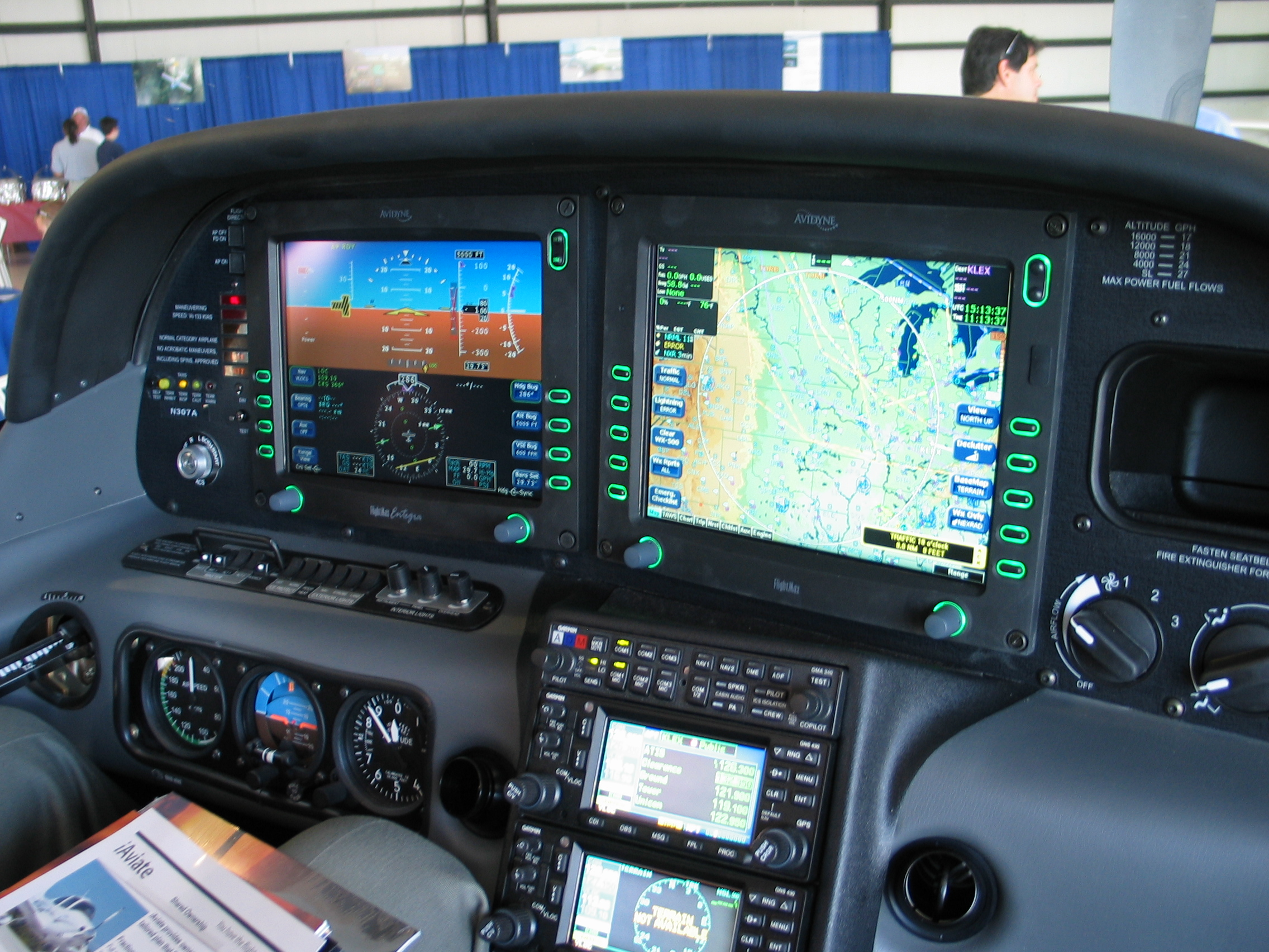 Interior of Cirrus SR22 airplane